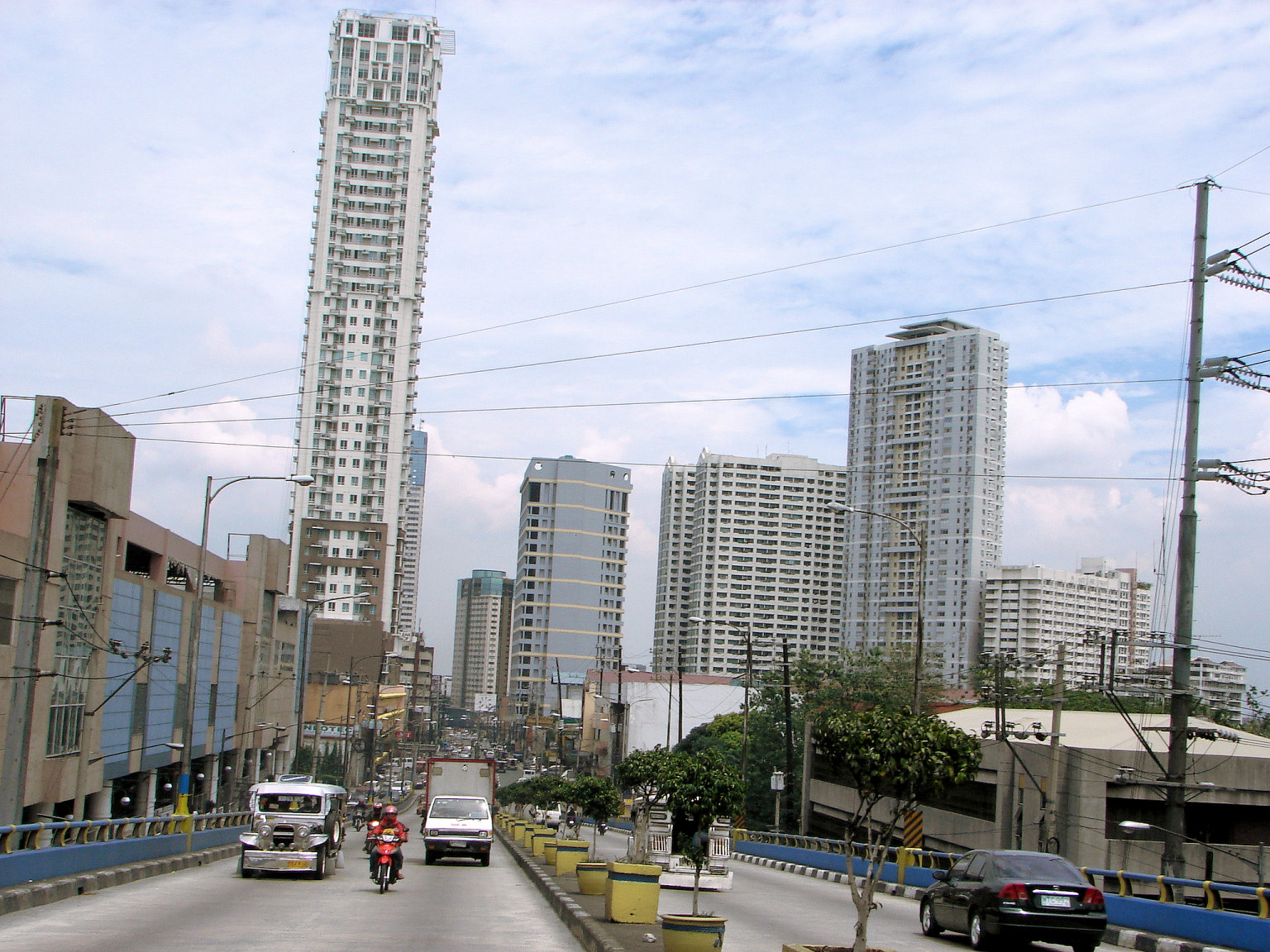 Shaw Boulevard (looking west), Mandaluyong City, the Philippines